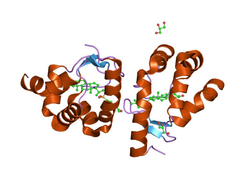 Cartoon representation of the molecular structure of protein registered with 2aib code.